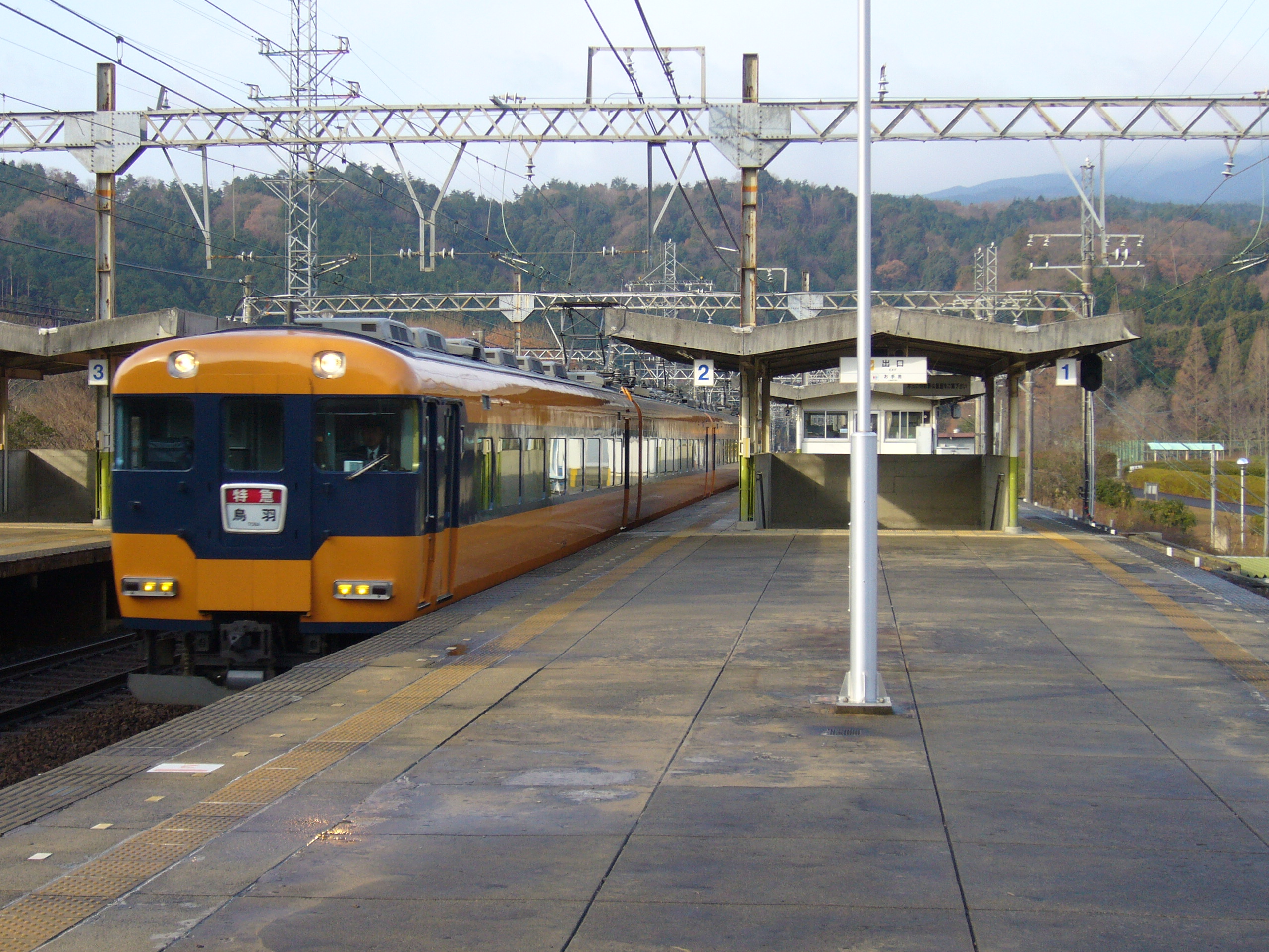 This is a picture of Higashi-Aoyama station,Kintetsu Osaka line.